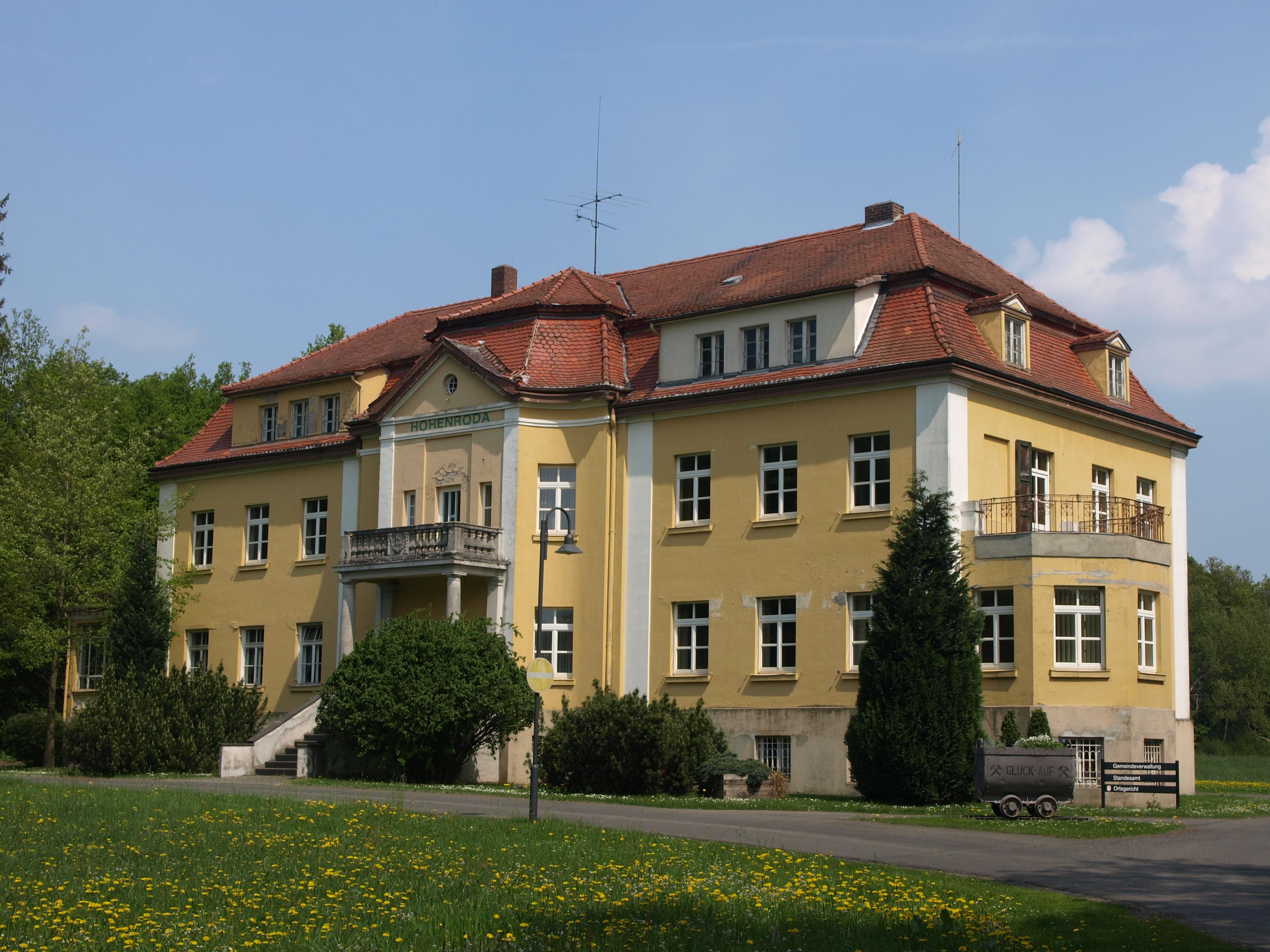 Town hall of the municipality Hohenroda. It was built as a manor house in 1909, which affiliates to a sprawling estate with the name of today's municipality